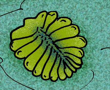 Reconstruction of the proarticulatan Dickinsonia (Vendomia) menneri from what is now the coast of the White Sea in Russia.